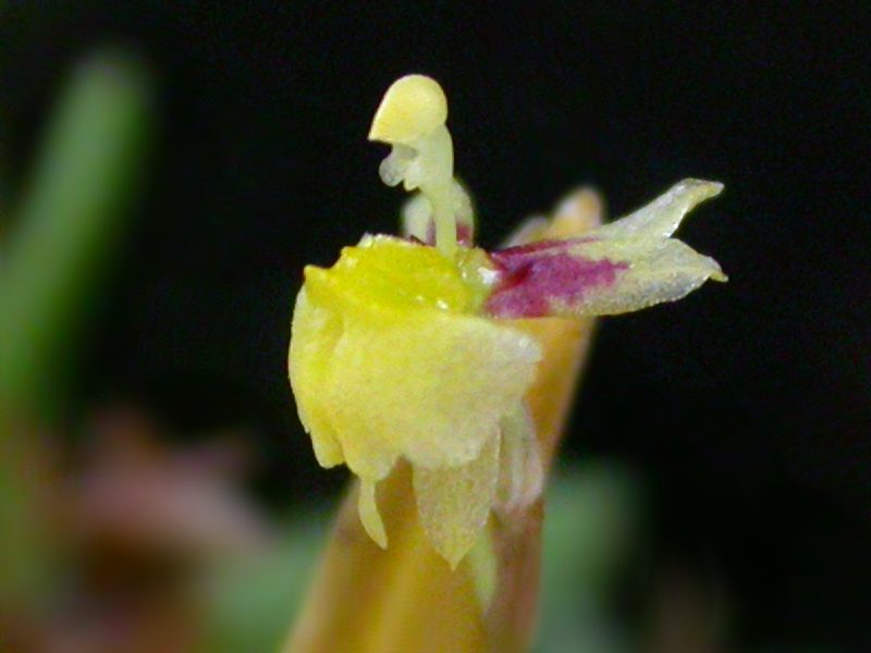 Sigmatostalix graminea